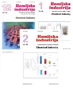 journal